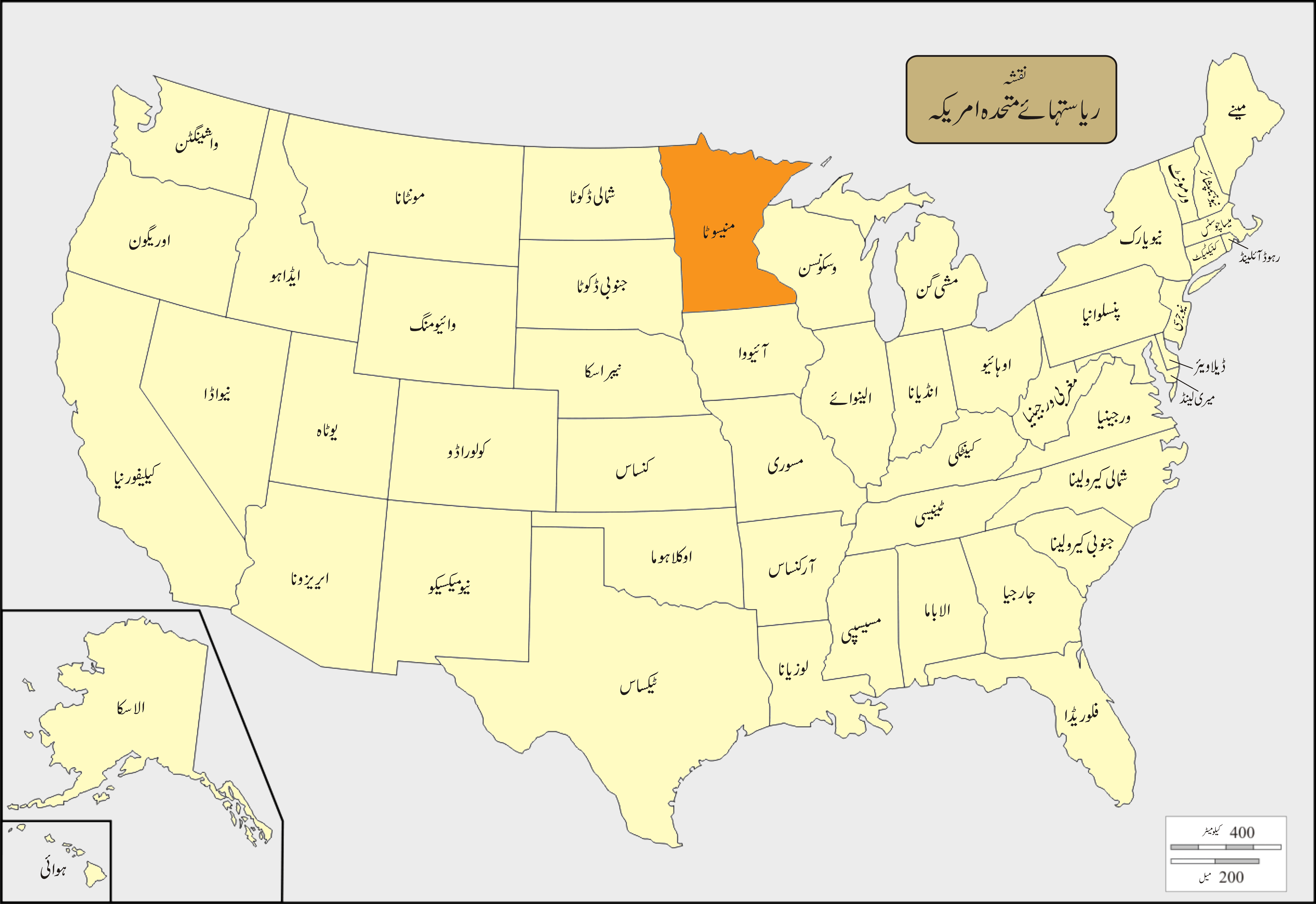 USA Names Minnesota